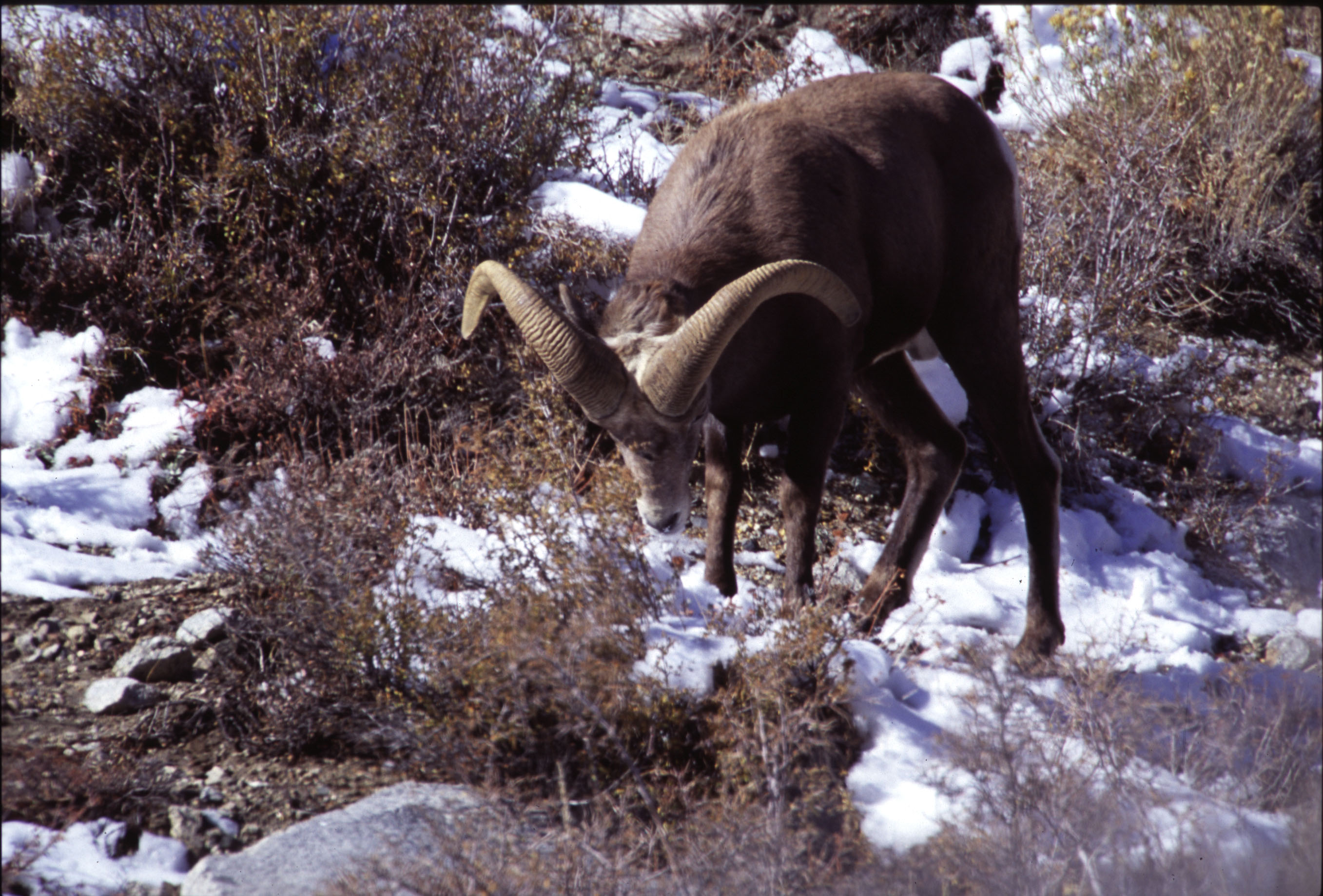 Male Sierra Nevada Bighorn sheep eating snow on Wheeler Crest, 2007